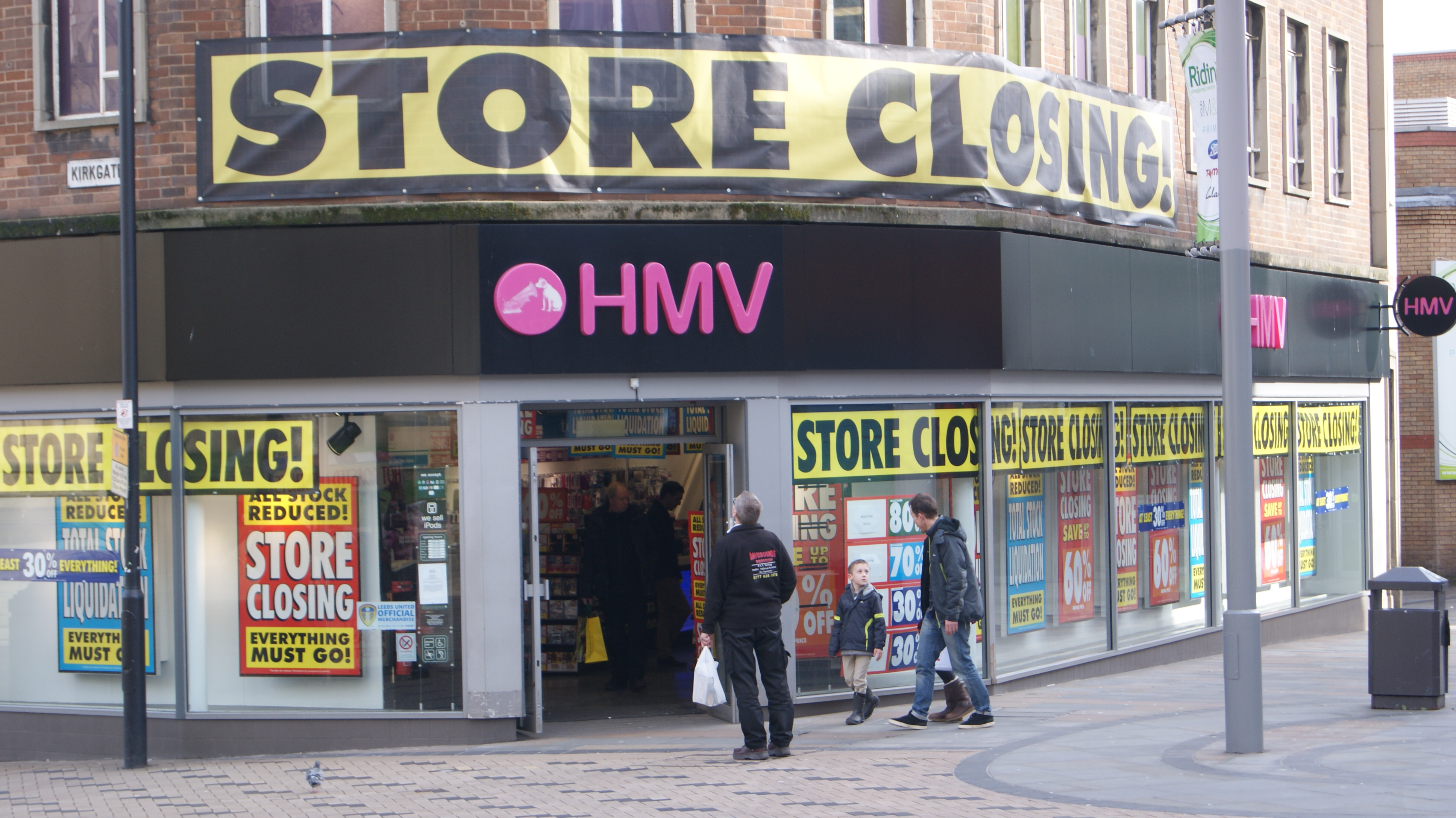 HMV, Kirkgate, Wakefield, West Yorkshire. As part of the groups 2013 administration this branch is set to close. Taken on the afternoon of Sunday the 10th of March 2013.